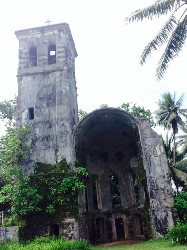 A.K.A "The German Bell Tower" Located in Kolonia near Our Lady of Mercy Catholic High School